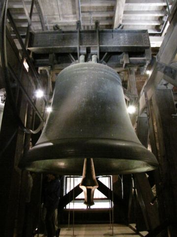 Dom Tower Utrecht, Salvator bell